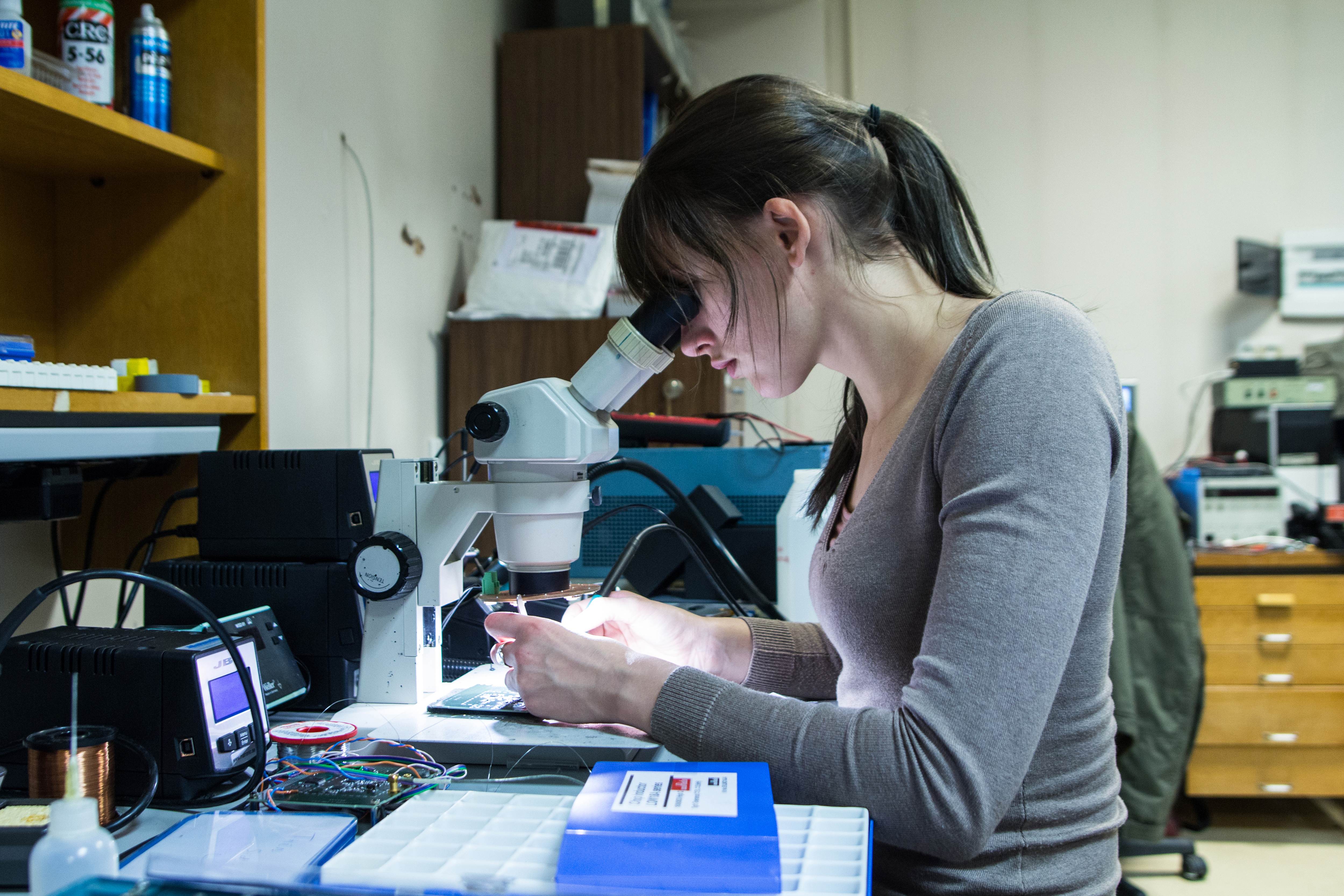 First Estonian satellite ESTCube-1 has got women’s touch. Even though there were relatively few women in the team their contribution was great. Kadi Kivistik is soldering ESTCube-1 radio communications subsystem with great care, because the same one is now flying in space. The photo was taken in December 2012 in the basement of the former Tähe-4 physics building in Tartu, where the spacecraft was built. Kadi is now on her way to make a very interesting career in space technology development.